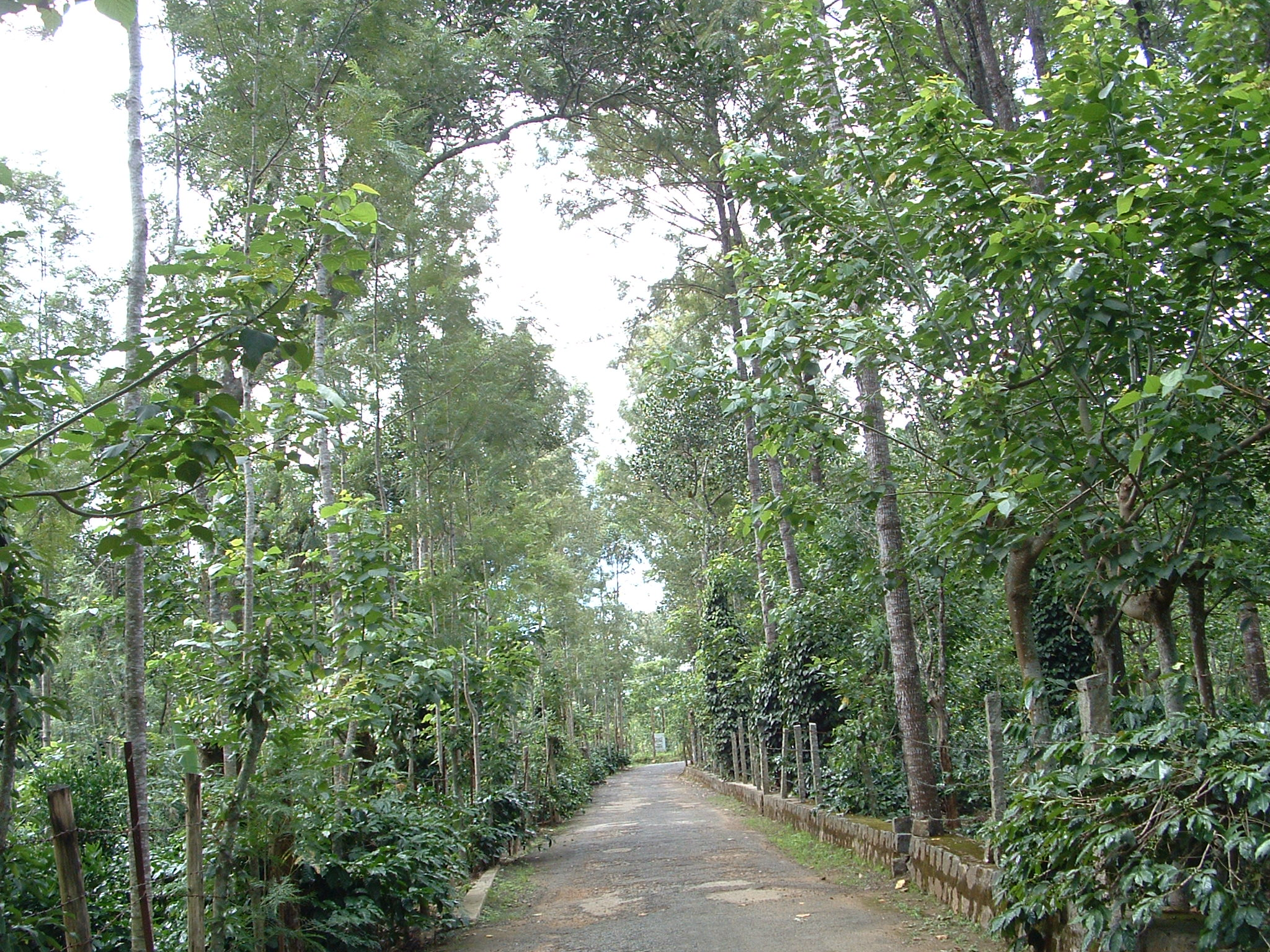 A wooded path among the original forests of Yercaud.